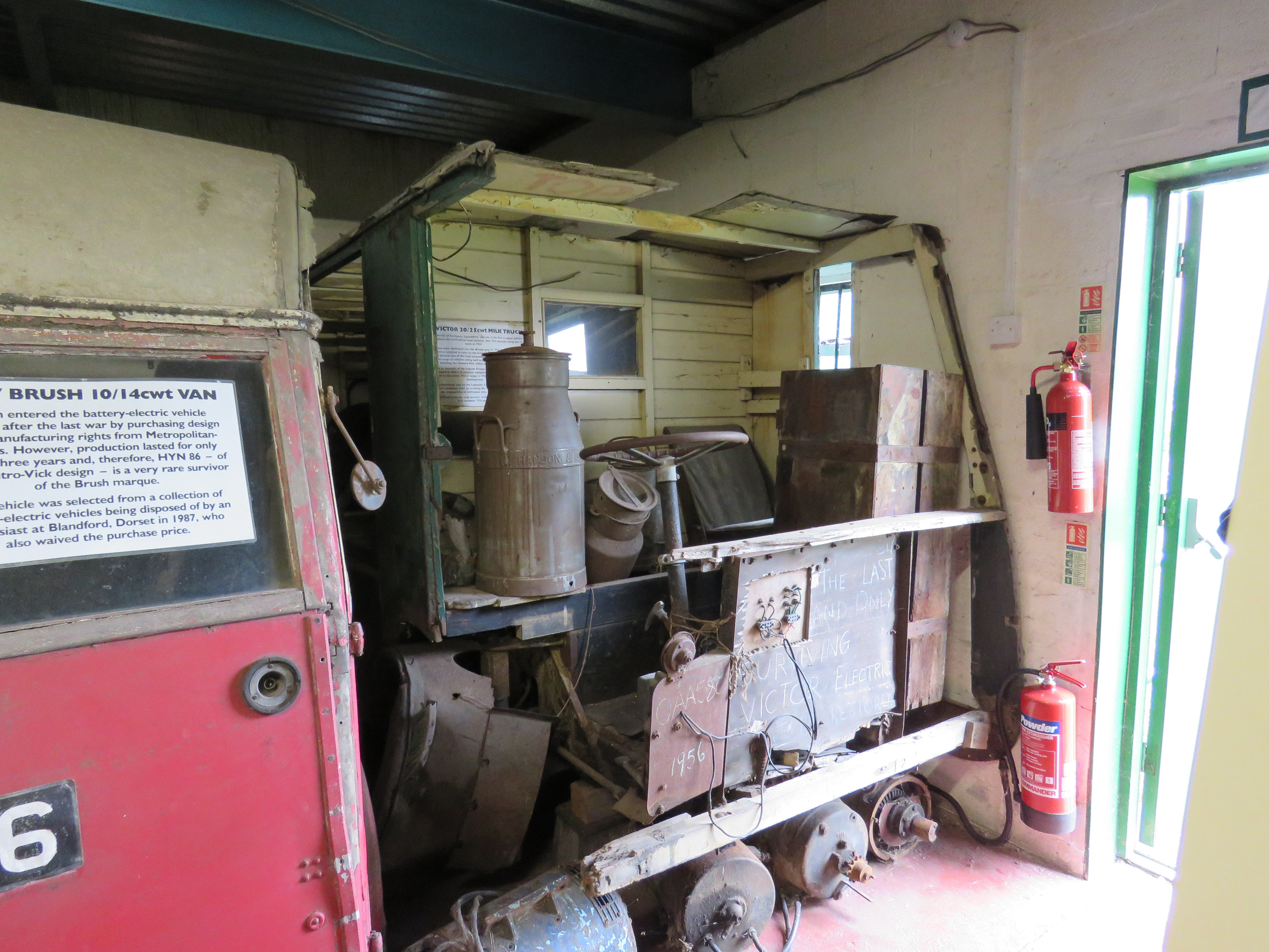 The only extant battery electric milk float made by Victor Electrics of Southport, Merseyside, UK is this type-B model at the Wythall Transport Museum. It is waiting in a queue for restoration.